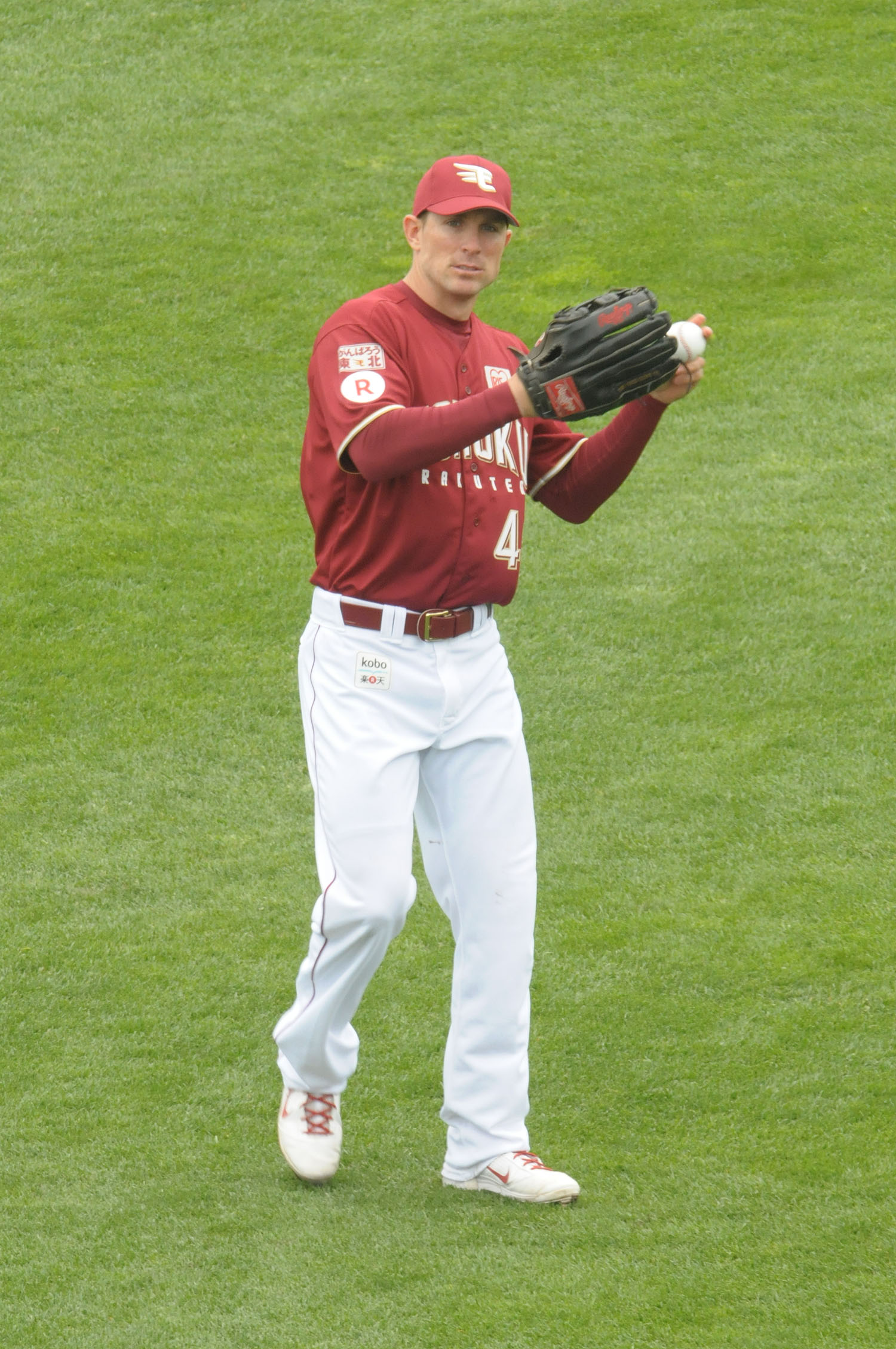 John Bowker, outfielder of the Tohoku Rakuten Golden Eagles, at Akita Prefectural Baseball Stadium.